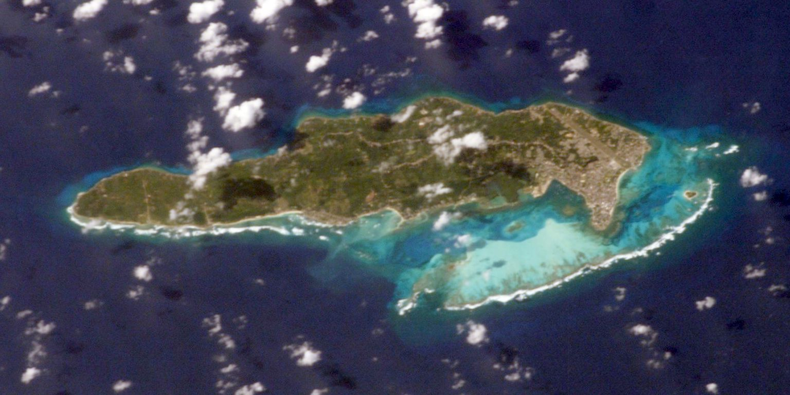 San Andres Island from ISS